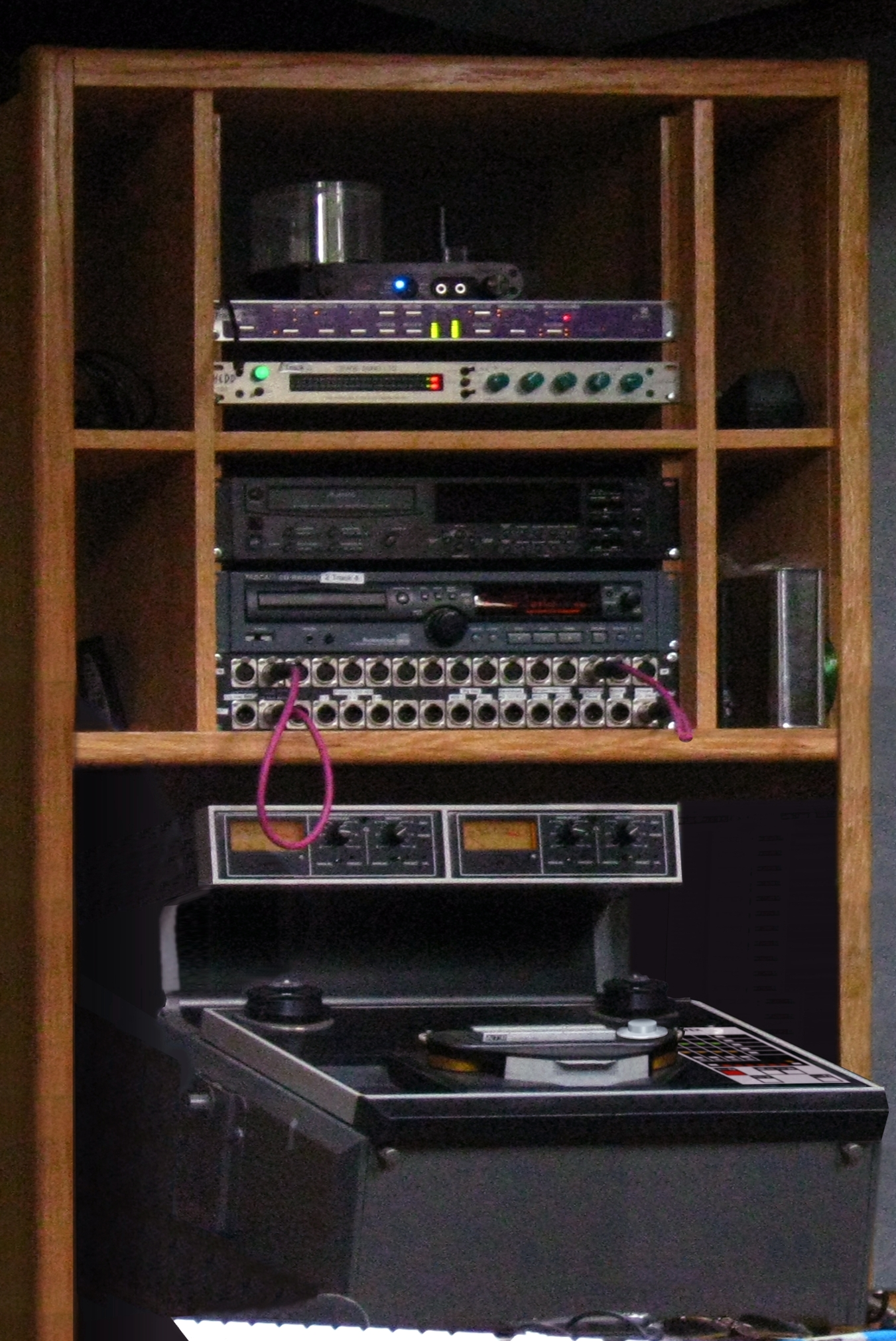 Supernatural Sound - recorder rack for various formats Apogee PSX-100 Crane Song Hedd 24 Bit Harmonically Enhanced Digital Device Alesis Masterlink Tascam CD-RW2000 Cd player/recorder Mike Spitz-modified Ampex ATR 102 1/2" 2-track